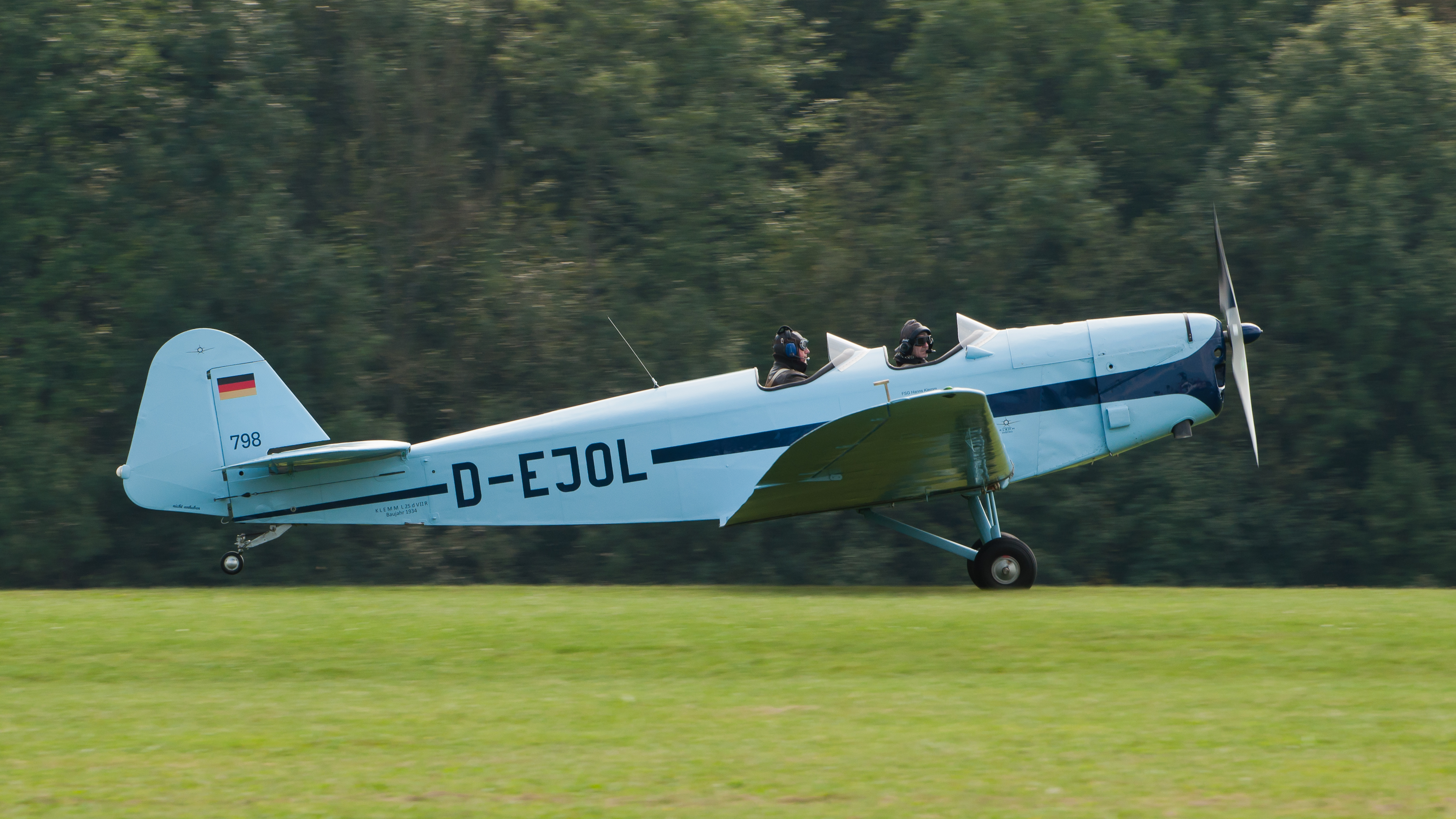 Klemm L.25 d VIIR (reg. D-EJOL, built in 1934). Engine: Hirth HM 60R.